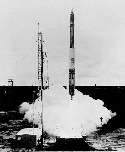 Vanguard TV-2 lift off 23 October 1957